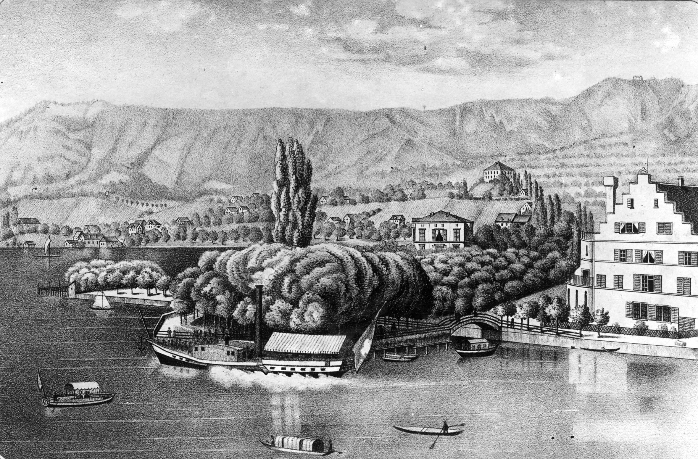 Zürich, Limmat and Lake Zurich : Steamship gate (1835-1883) on the line Zürich-Rapperswil (SG)-Zürich at "Bauschänzli", "Bauhaus" in the Kratz quarter to the right side, as seen in the years 1842-1856.